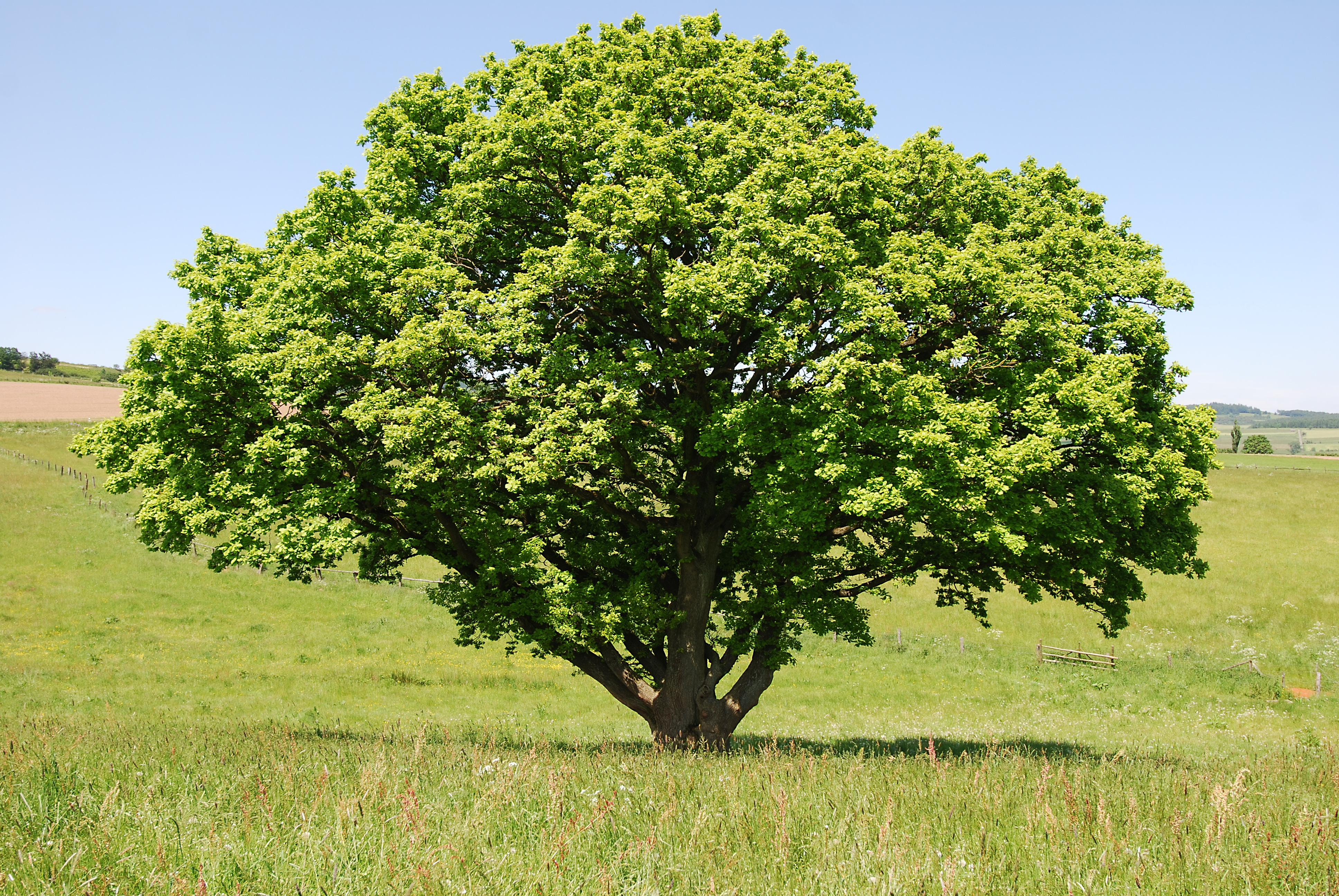 Pedunculate oak (Quercus robur) near Oberschledorn, a natural monument in Medebach, Hochsauerlandkreis, North Rhine-Westphalia, Germany